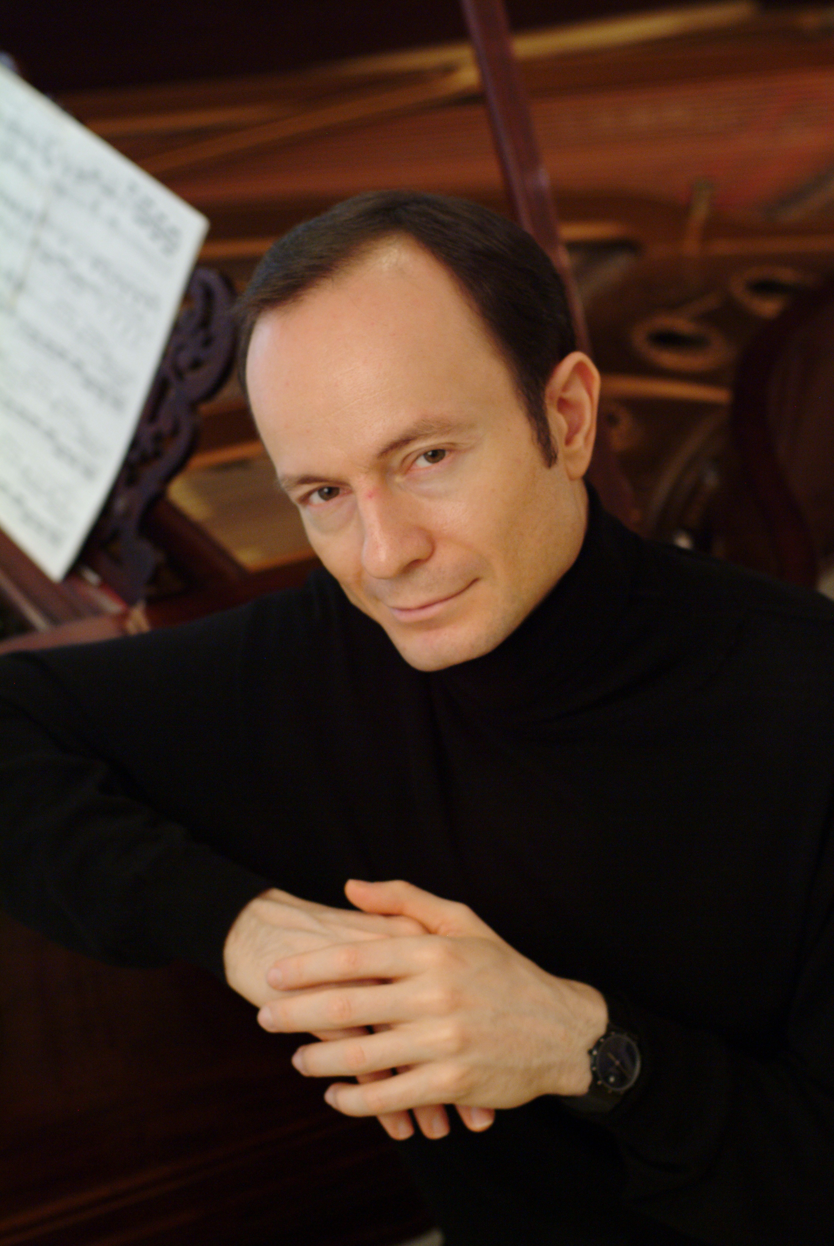 Photograph of classical pianist, Ilya Itin.